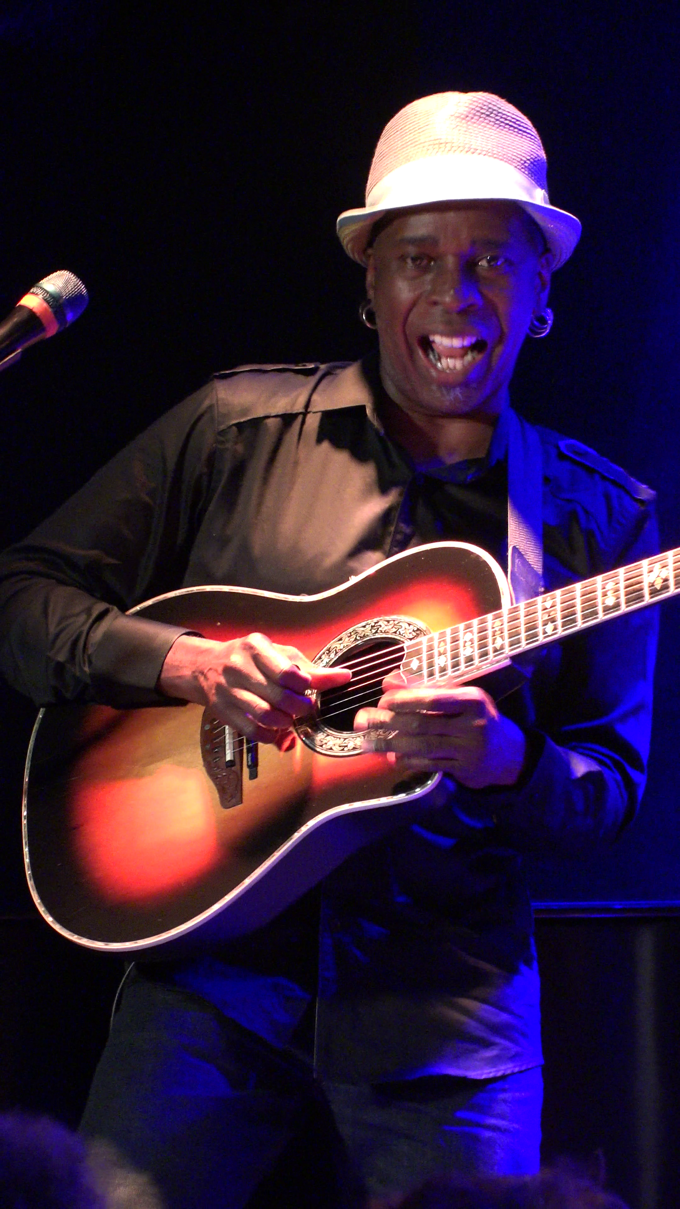 Vernon Reid of Living Colour live at the Blue Note in New York City